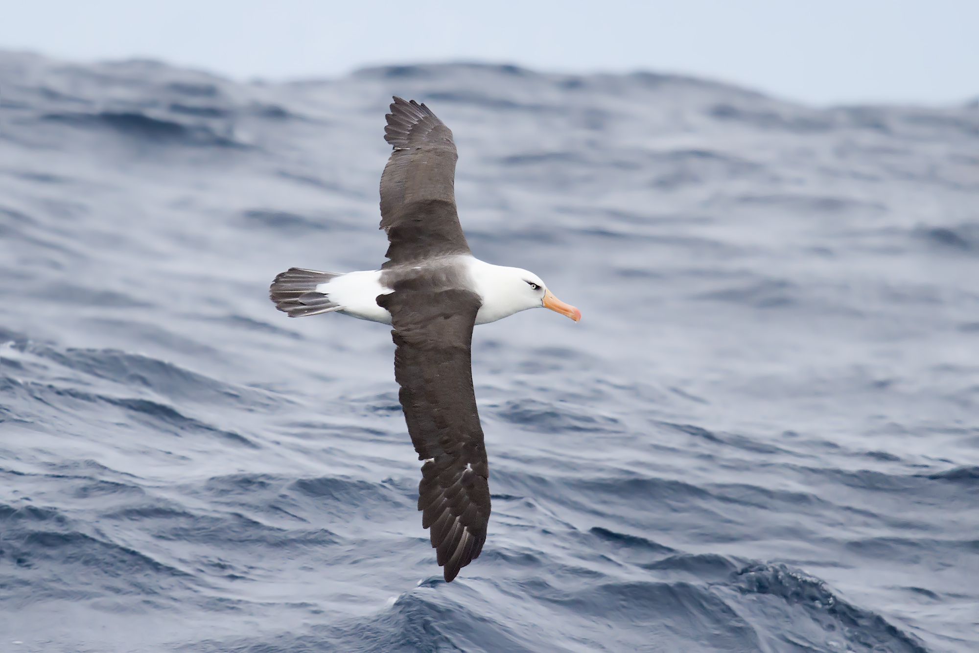 Campbell Albatross (Thalassarche impavida), East of the Tasman Peninsula, Tasmania, Australia